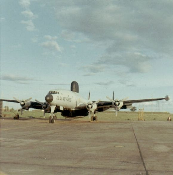 A U.S. Air Force Lockheed EC-121K Rivet Top (s/n 57-143184) of the 552nd Airborne Early Warning & Control Wing at Korat Royal Thai Air Force Base, Thailand, in 1967/68. "Rivet Top" was a modification of a EC-121 into a Airborne Tactical Air Coordination Center, where intelligence collection and command and control functions were fused on a single airframe. For this a former U.S. Navy EC-121K (BuNo 143184) was modified.